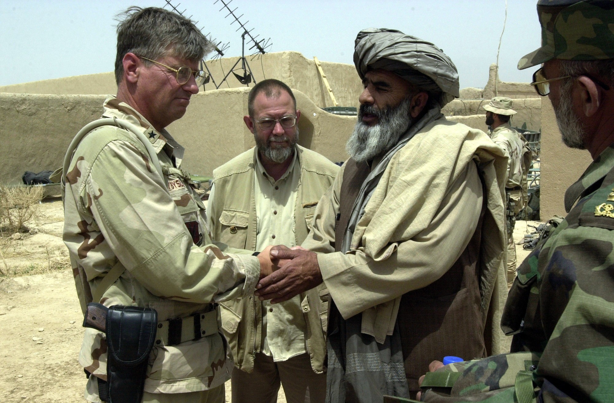 OPERATION ENDURING FREEDOM: Air Force Brig. Gen. Anthony Przybysalwski speaks with the governer of Oruzgan province, Jan Mohammed, near Deh Rawod, Afghanistan, on July 24, 2002. Przybysalwski led a joint investigation team to the province to speak with villagers and inspect damage caused by a July 1, 2002, bombing. (U.S. Army photo by SSgt Robert Hyatt)